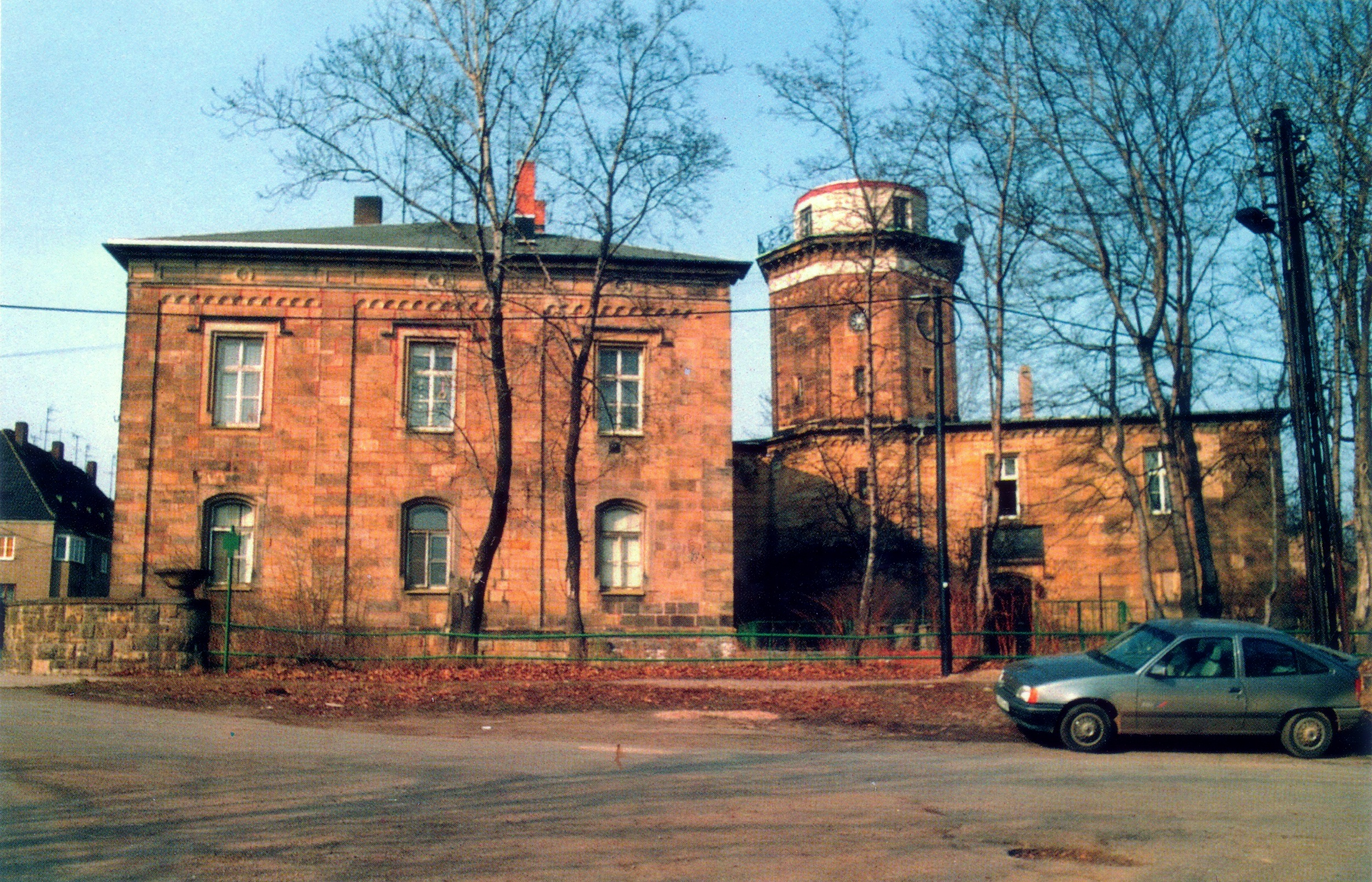 Observatory in Gotha, Thuringia, Germany